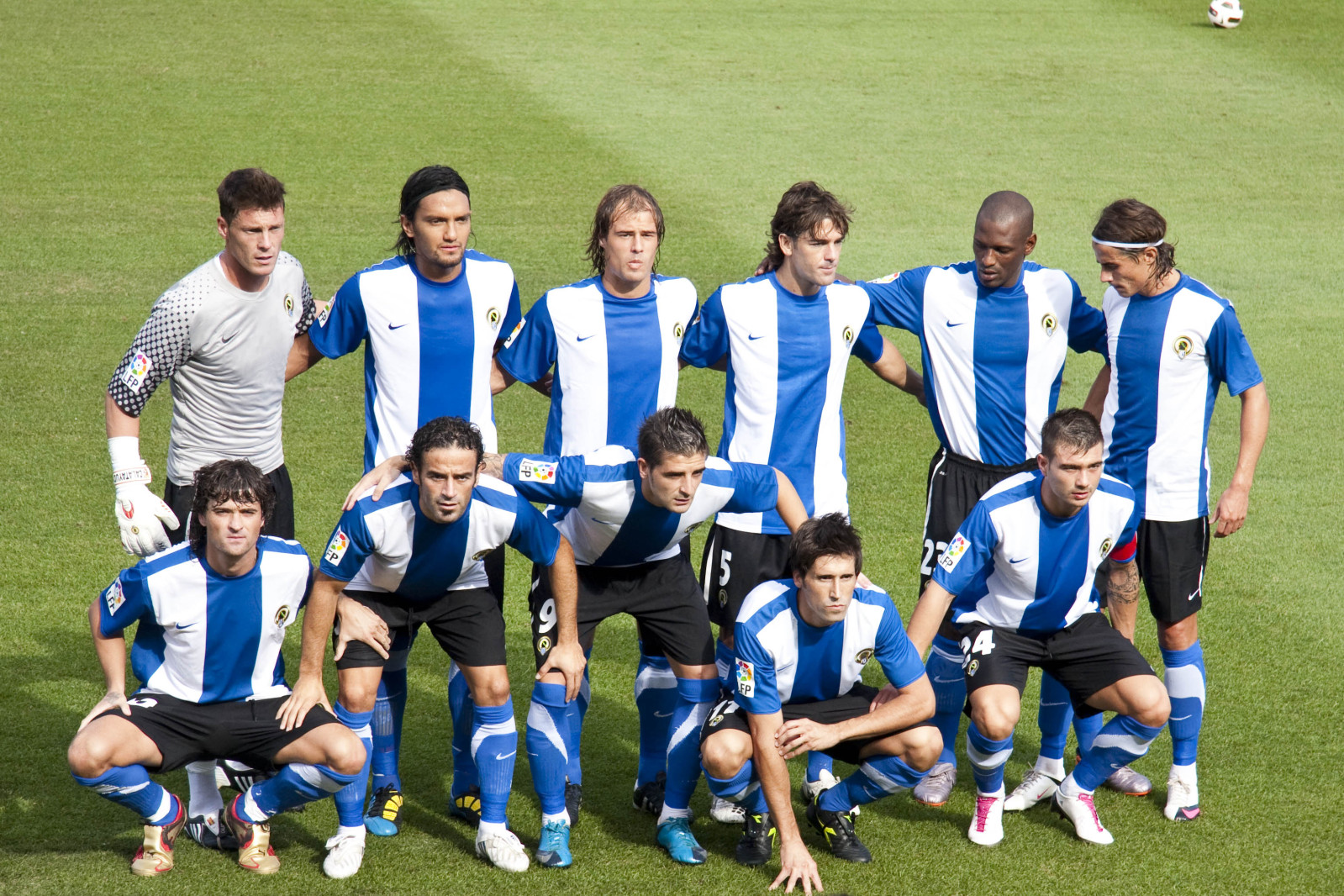 First starting lineup of the season 2010/11, concerning the match between Hércules and Athletic Bilbao played at the José Rico Pérez Stadium.